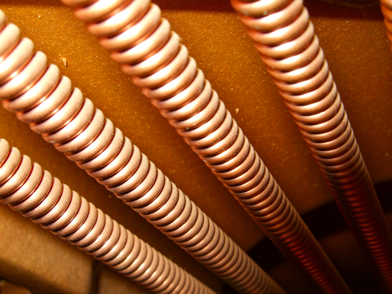 Piano string detail